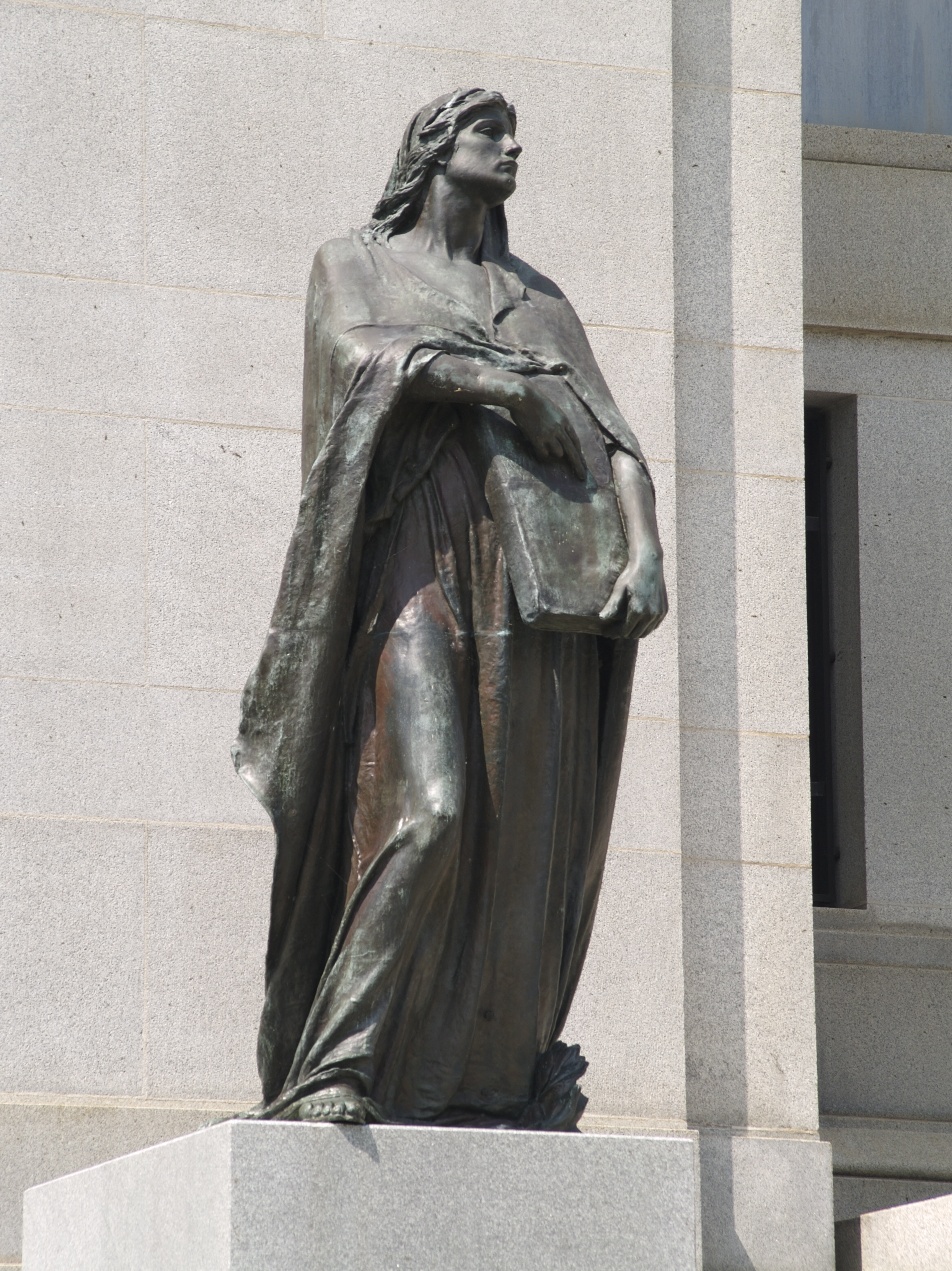 "Truth". Supreme Court. Sculptor, Walter Allward